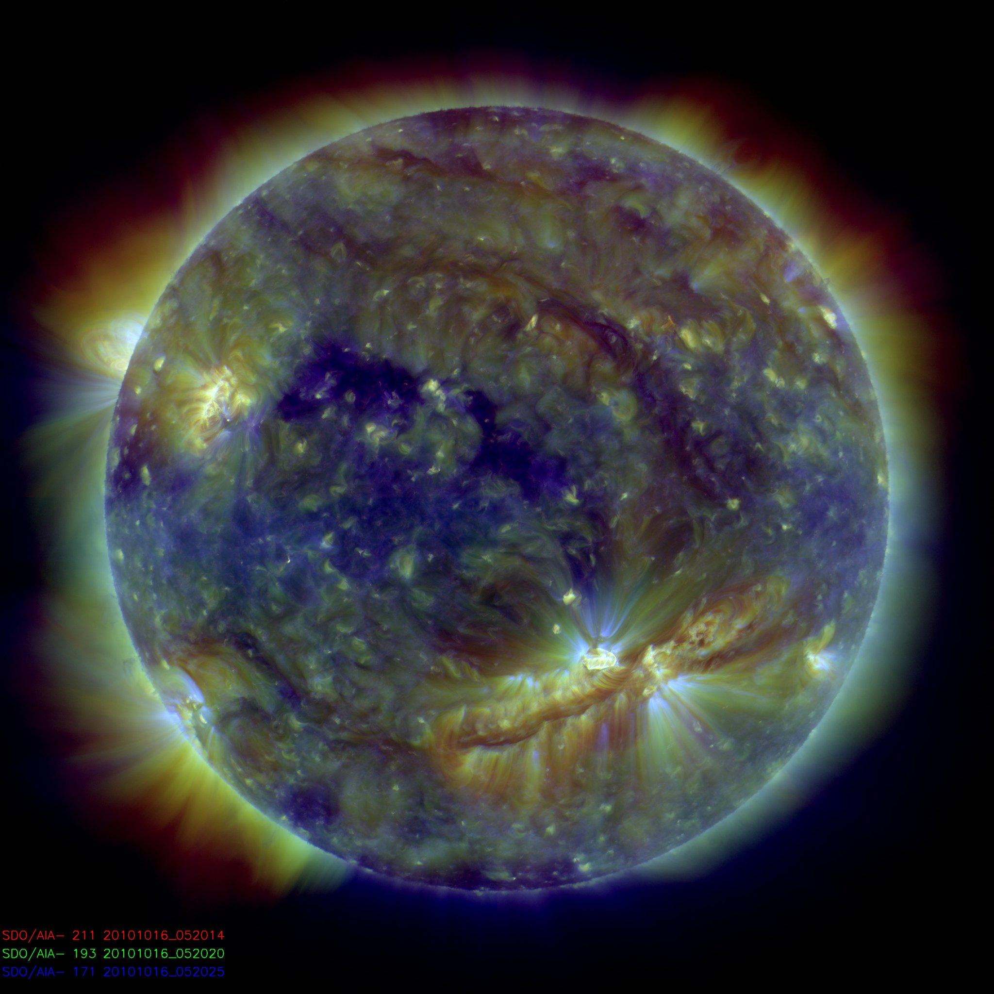 Fast-growing sunspot 1112 is crackling with solar flares. So far, none of the blasts has hurled a substantial CME, or coronal mass ejection, toward Earth. In addition, a vast filament of magnetism is cutting across the sun's southern hemisphere. This filament is so large it spans a distance greater than the separation of Earth and the moon. A bright 'hot spot' just north of the filament's midpoint is UV radiation from sunspot 1112. The proximity is no coincidence; the filament appears to be rooted in the sunspot below. If the sunspot flares, it could cause the entire structure to erupt. Thus far, none of the flares has destabilized the filament.